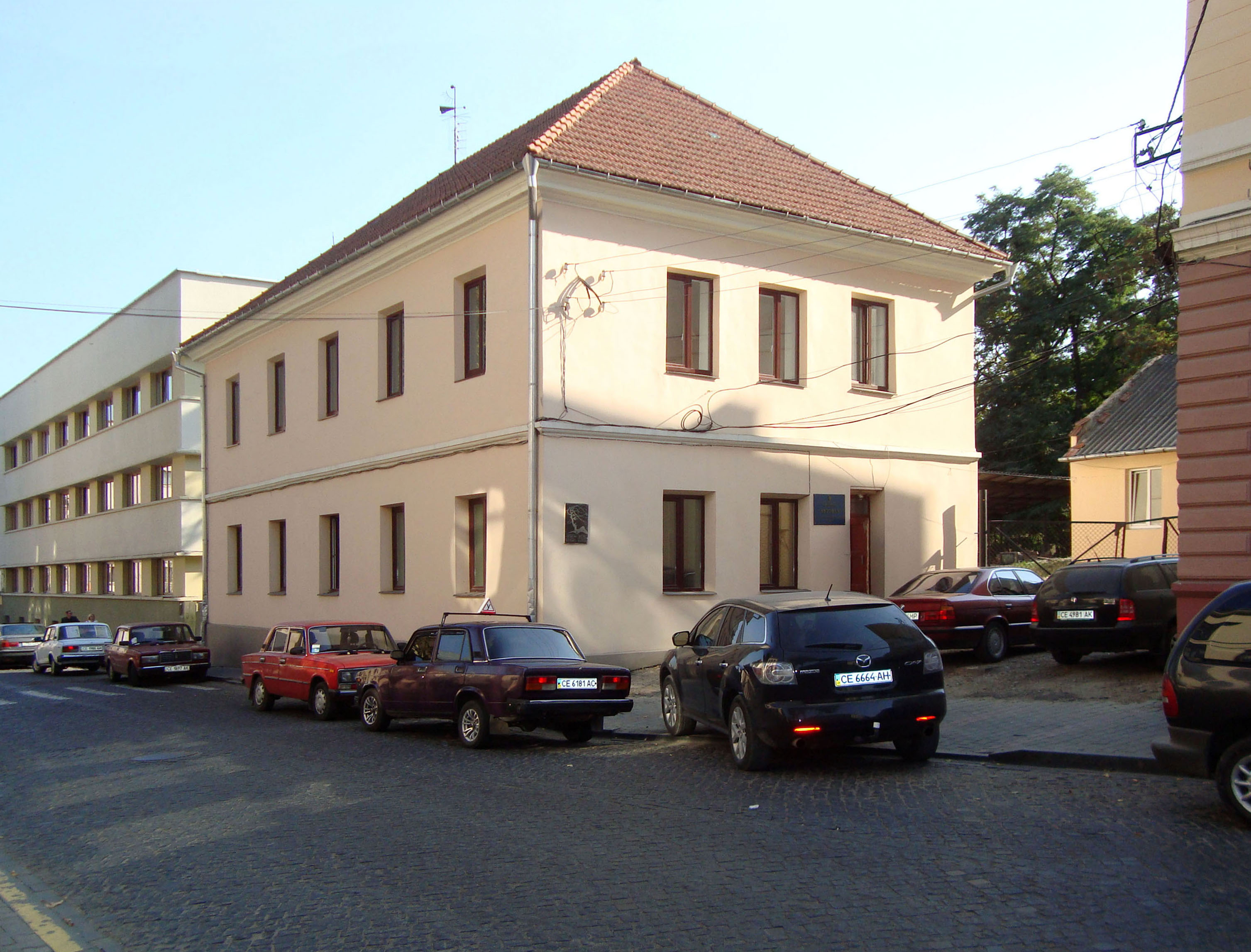 Distortion corrected, straightened & cropped version of File:UA CE Cernauti National-Hauptschule.jpg